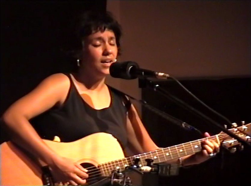 Kavisha Mazzella (Australian musician) on stage at Cygnet Folk Festival, January 1999 (Tony Rees photograph)